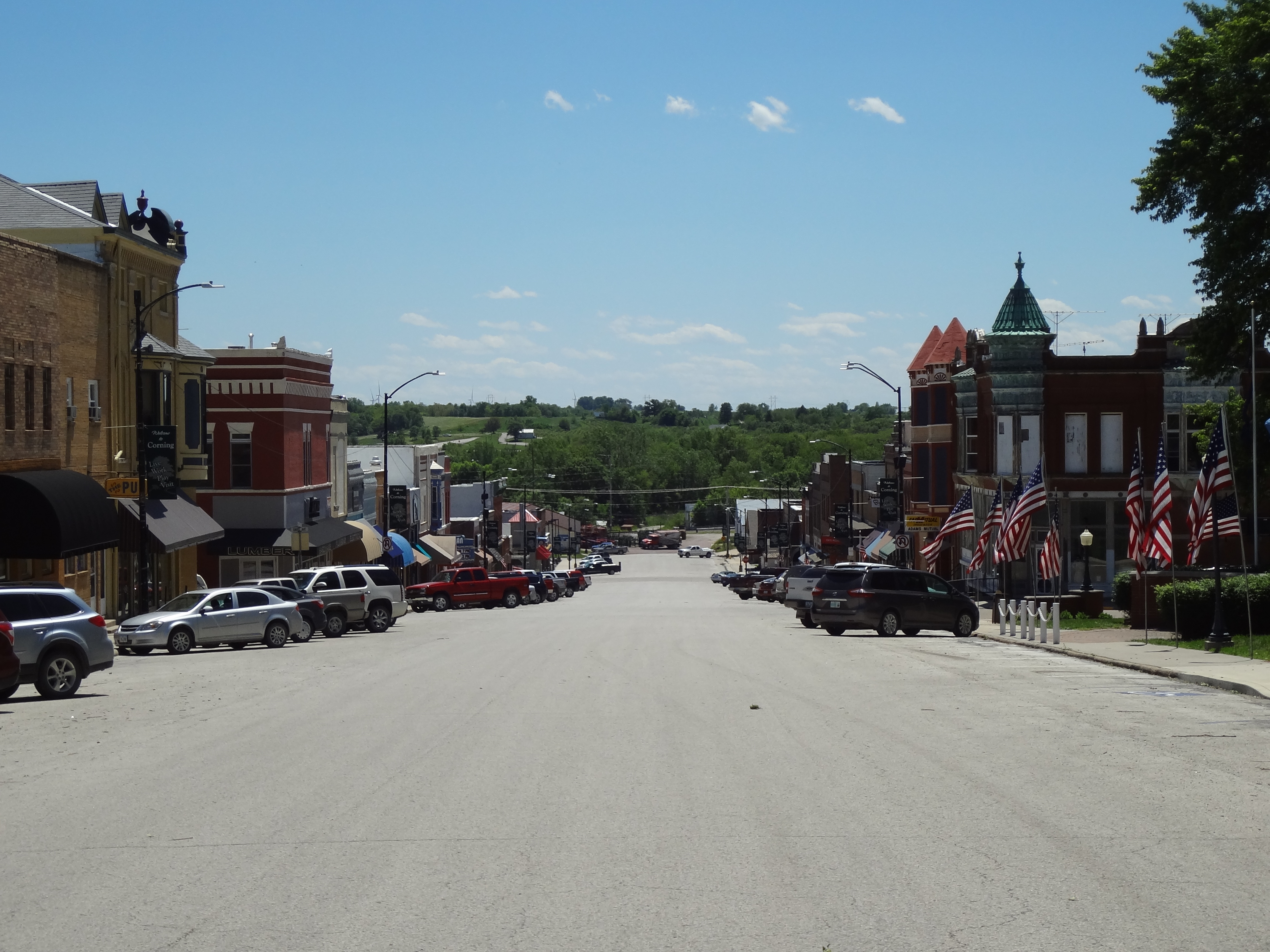 View looking down Davis Avenue (Main Street) in Corning, Iowa.